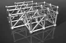 Spaceframe embodiment by the GEO System